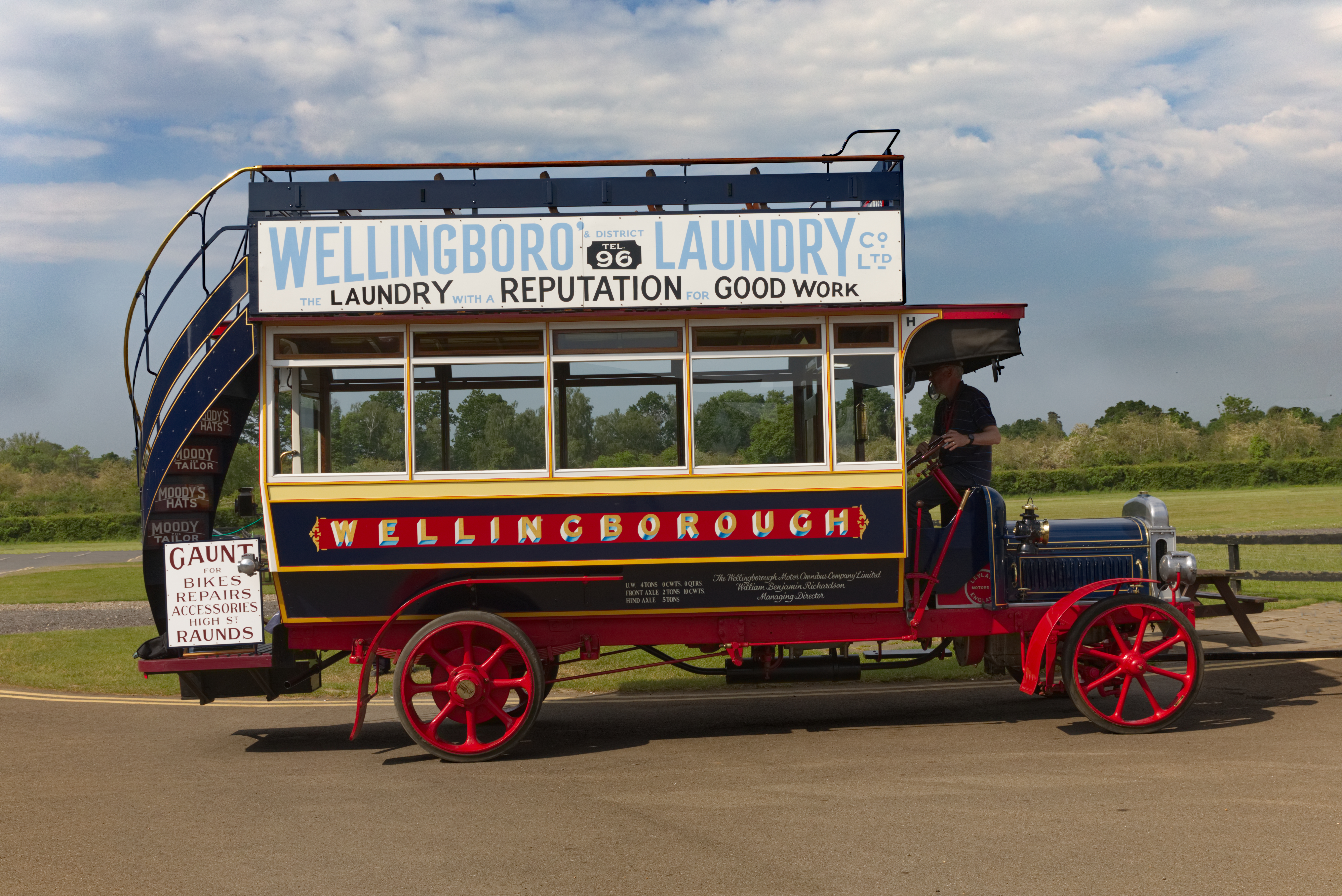 At The Shuttleworth Collection, Old Warden, Nr Biggleswade, Bedfordshire SG18 9EP.